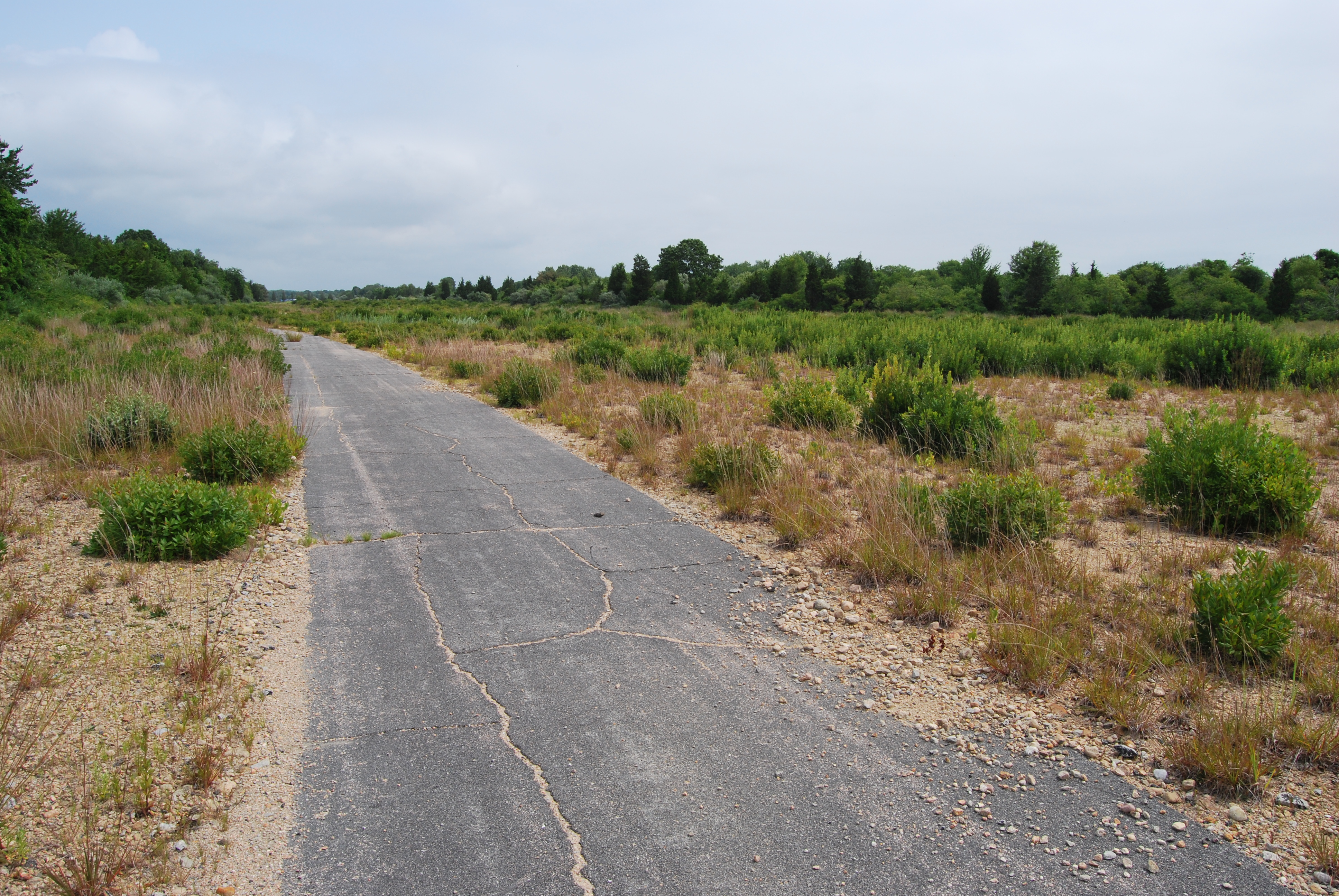 A former runway of the Naval Auxiliary Air Station Charlestown, now being used as part of a native grasslands restoration project in the Ninigret National Wildlife Refuge.